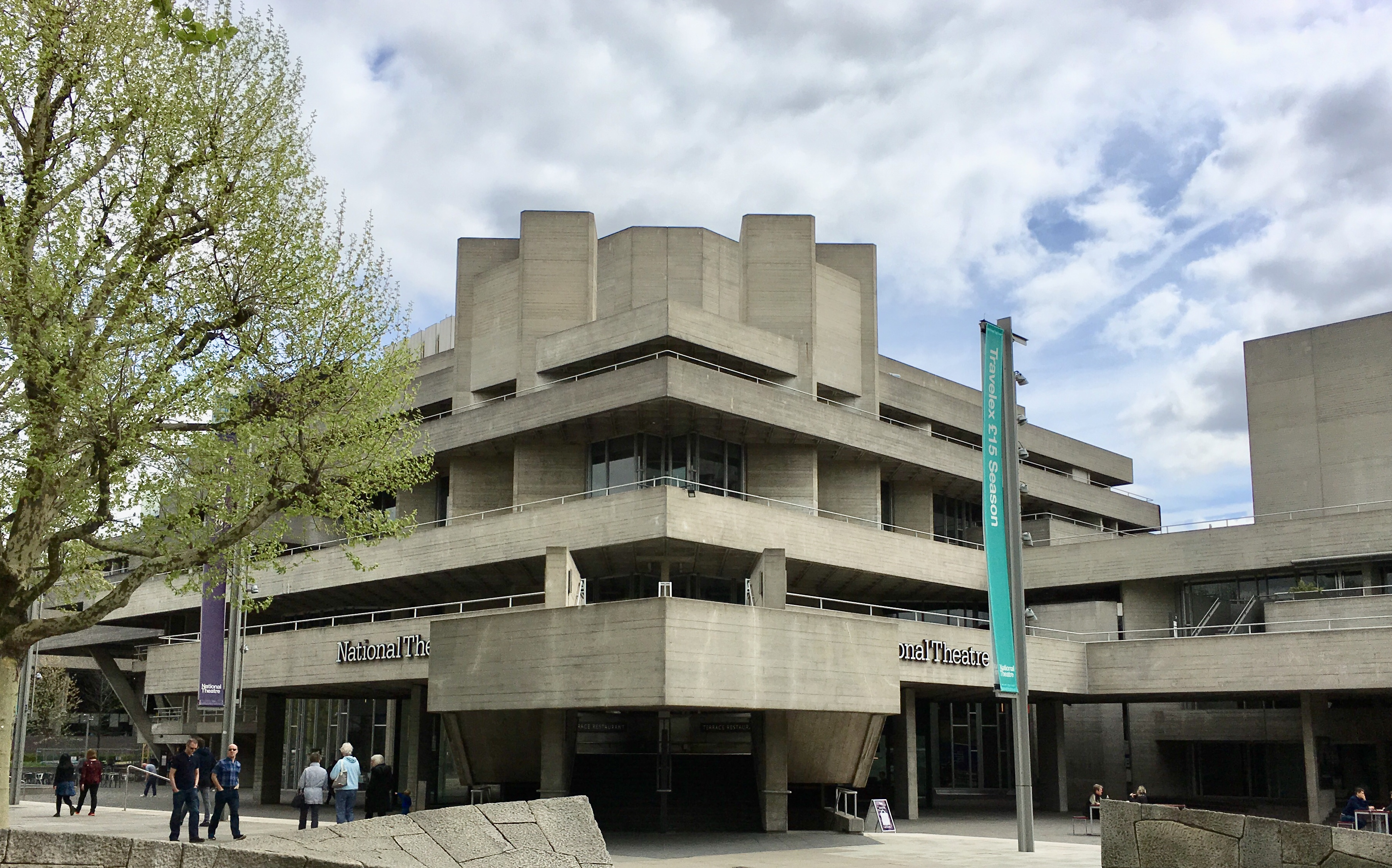 Axis view of Royal National Theatre from ground level